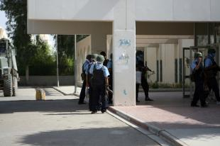 Iraqi police prepare to enter the Ramadi hospital in an effort to secure it from insurgent activity, July 5, 2006